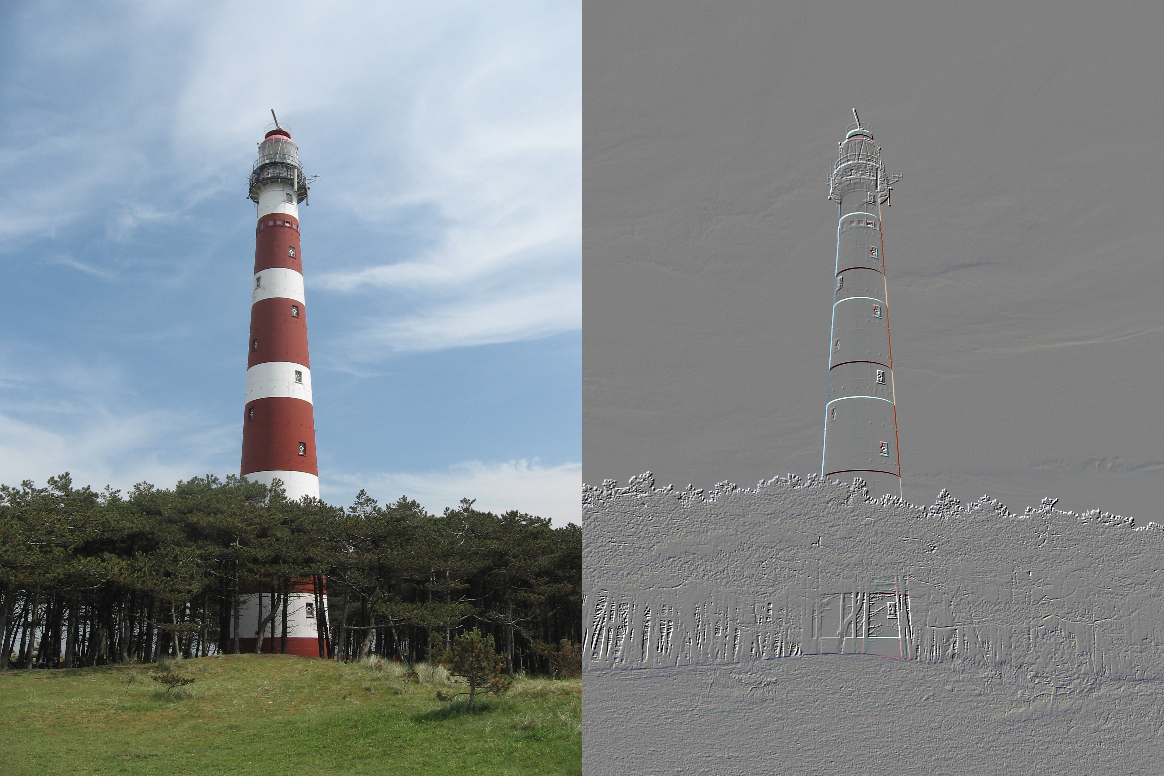 Example of image embossing